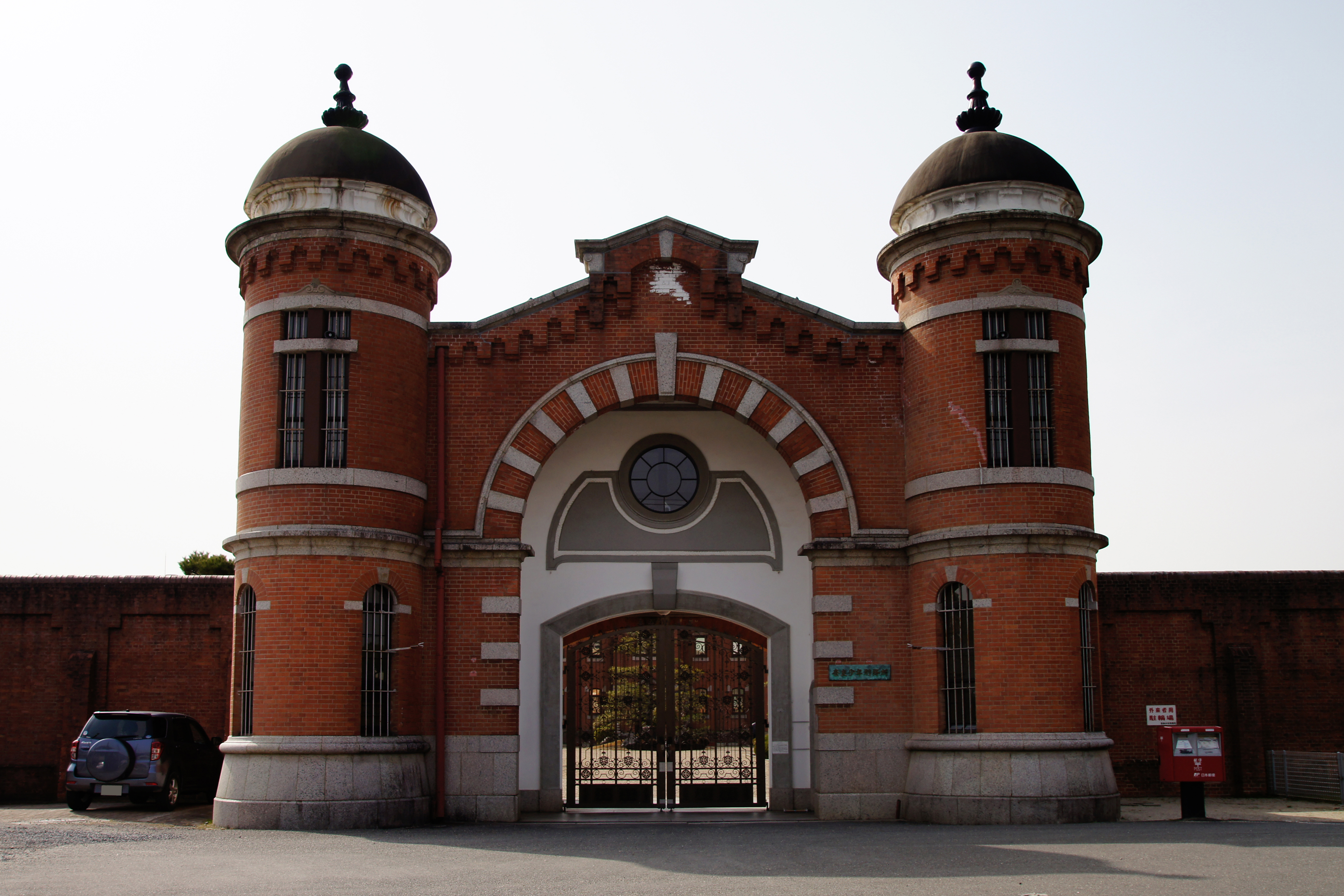 Nara Juvenile Prison in Nara, Nara prefecture, Japan.